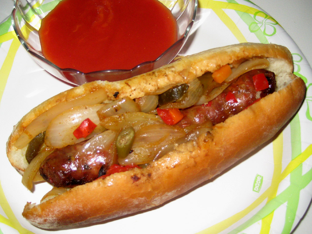 Italian Sausage sandwich I bought in San Francisco.